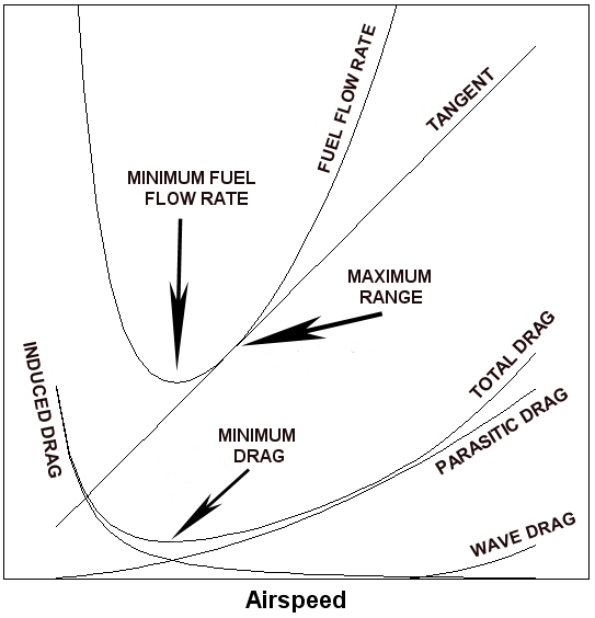 To show the relationship between minimum drag speed, best endurance speed, and best range speed.